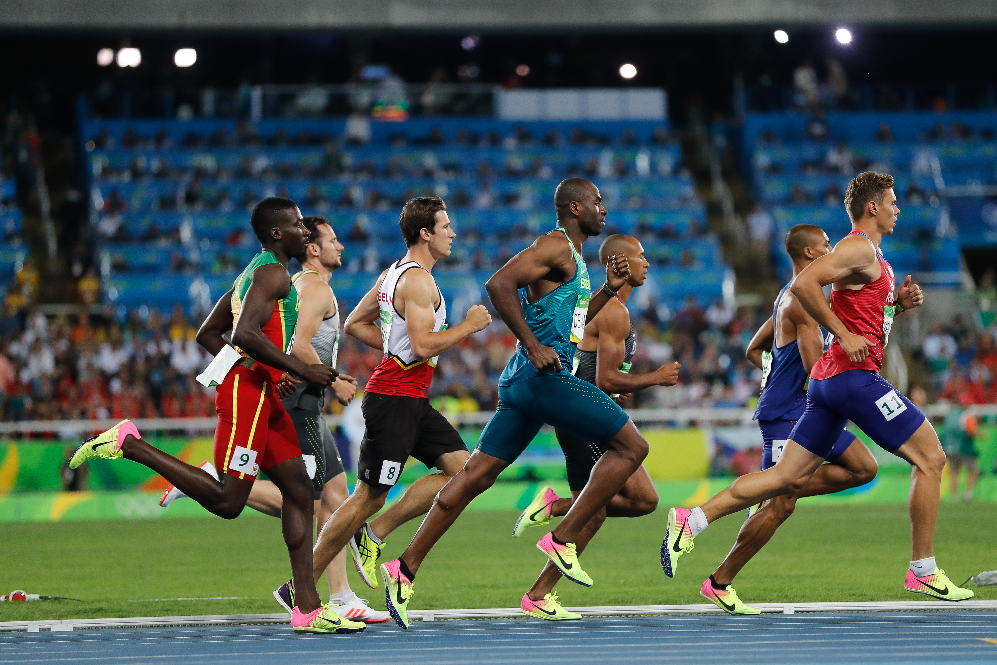 Rio de Janeiro - Brasileiro Luiz Alberto de Araújo corre 1500m no decatlo nos Jogos Rio 2016, no Estádio Olímpico, e termina competição em 10º. (Fernando Frazão/Agência Brasil)